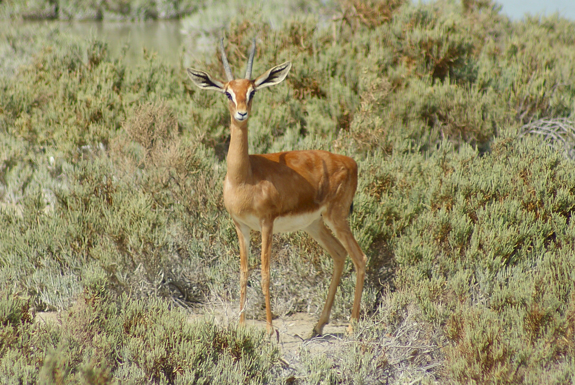 Gazelle (Gazella gazella cora ??) on Yas Island.